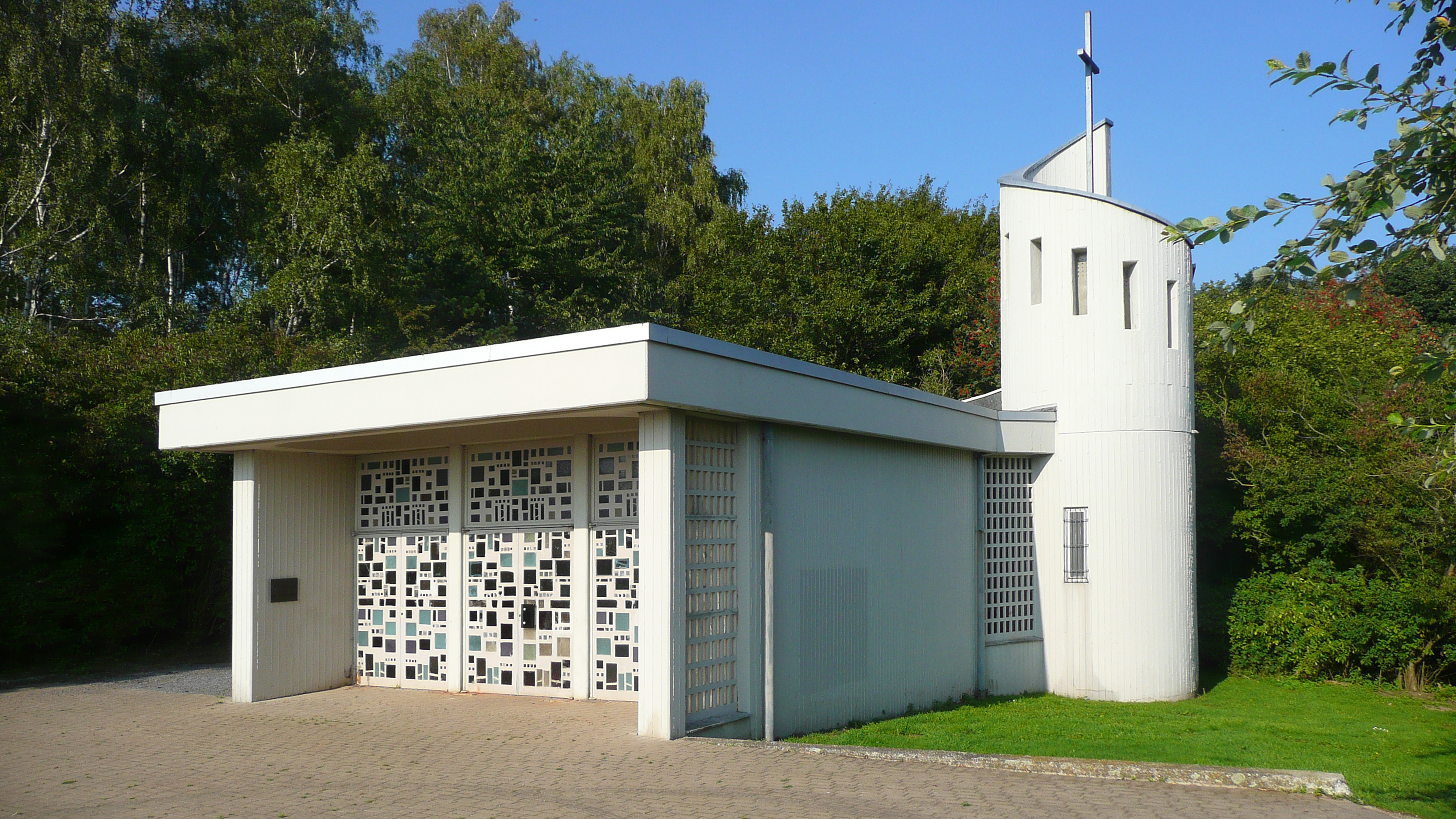 Chapel in Aachen-Haaren (Germany)